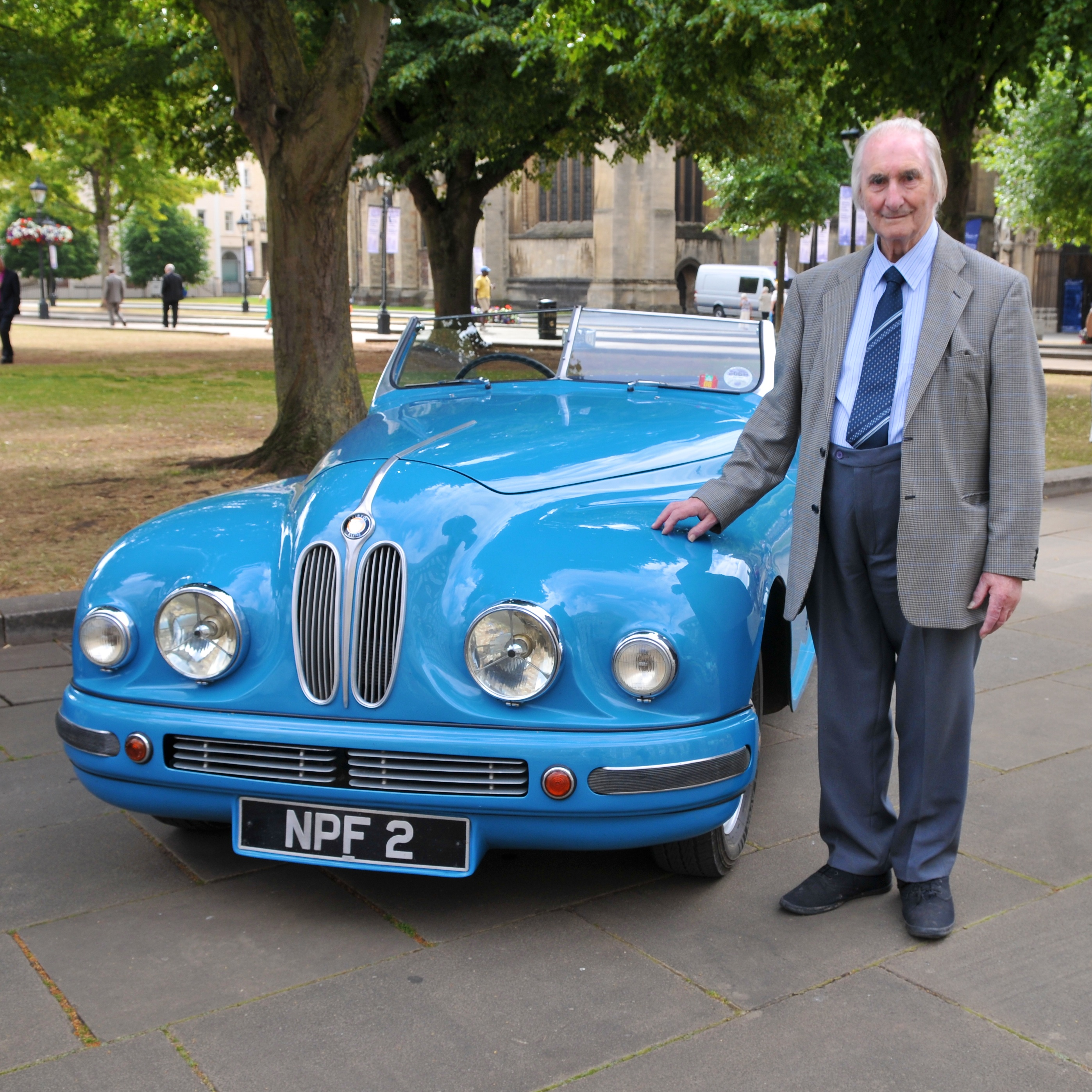 Bristol 402 built for Jean Simmons, with Syd Lovesy the Bristol Cars works director who worked at Bristol Cars since it's inception in 1946 until it went into administration in March 2011